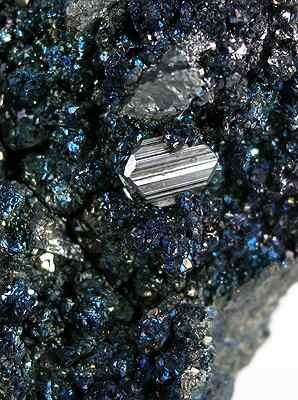 Andorite VI, Stannite Locality: San José Mine, Oruro City, Cercado Province, Oruro Department, Bolivia (Locality at ) Size: 11.8 x 7.2 x 3.7 cm. Super-bright crystals to 7 mm of razor-sharp andorite. This would be from early finds, perhaps even from the Vaux expeditions judging by the Academy accession number. This is a really beautiful specimen with iridescent matrix under the andorites. The matrix is stannite in tiny sharp, iridescent crystals atop massive ore. Ex. Academy of Natural Sciences Philadelphia Collection.